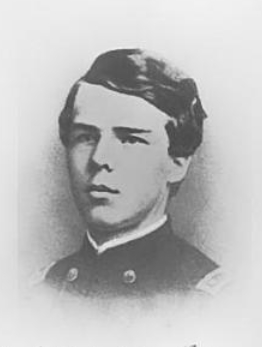 Photograph of John Rodgers Meigs, brevet major in the Union Army, taken circa 1864.